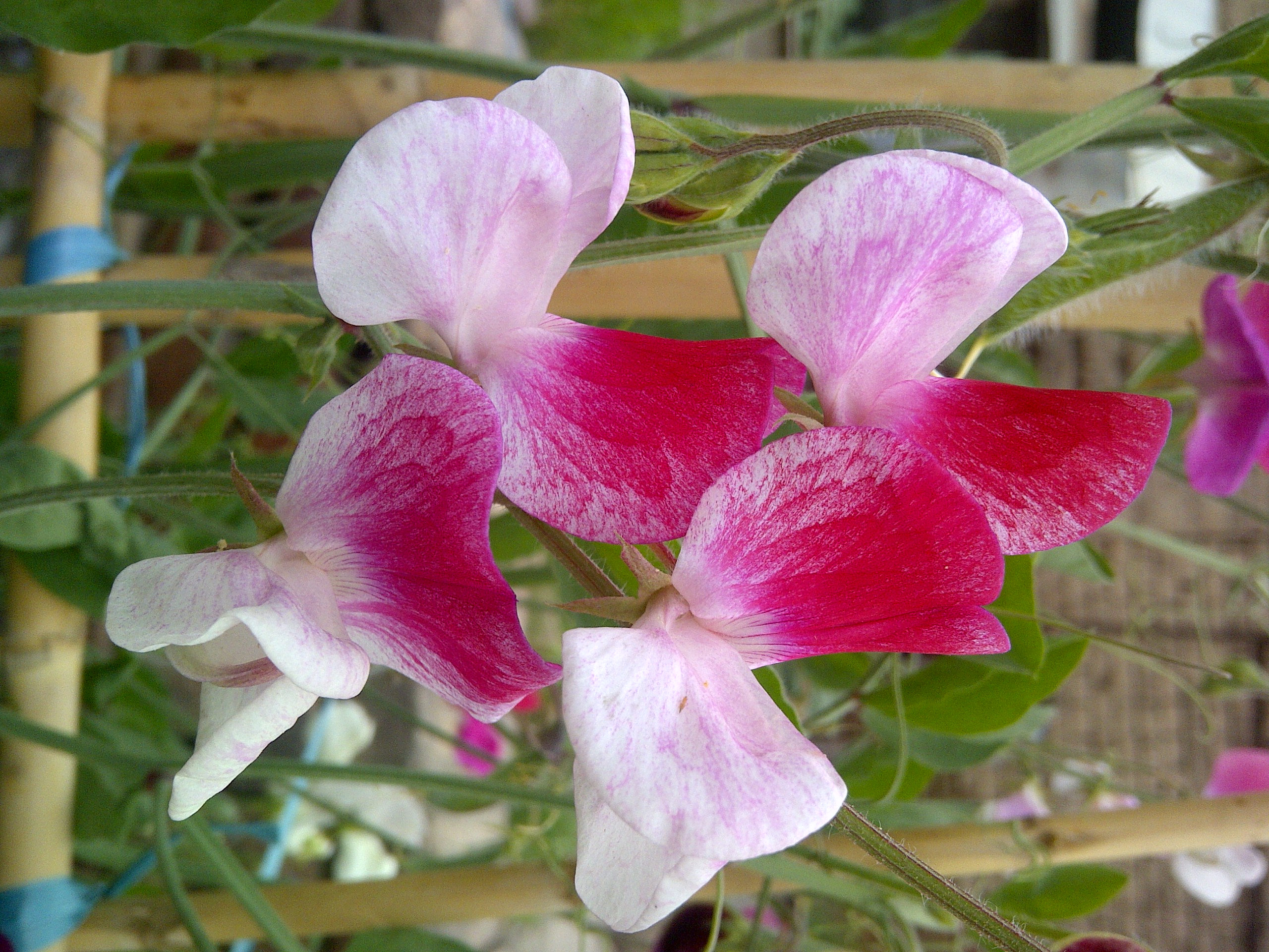 Sweet Pea